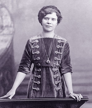 Alma Pihl, one of the many Finns who worked for the legendary workshop of the jeweller Peter Carl Fabergé